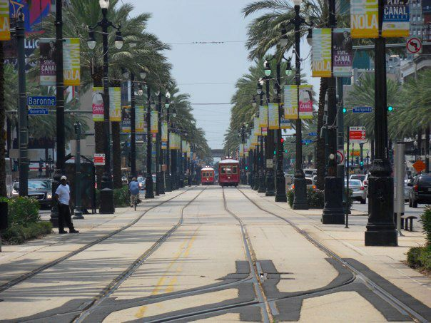 NOLA Canala Street street car